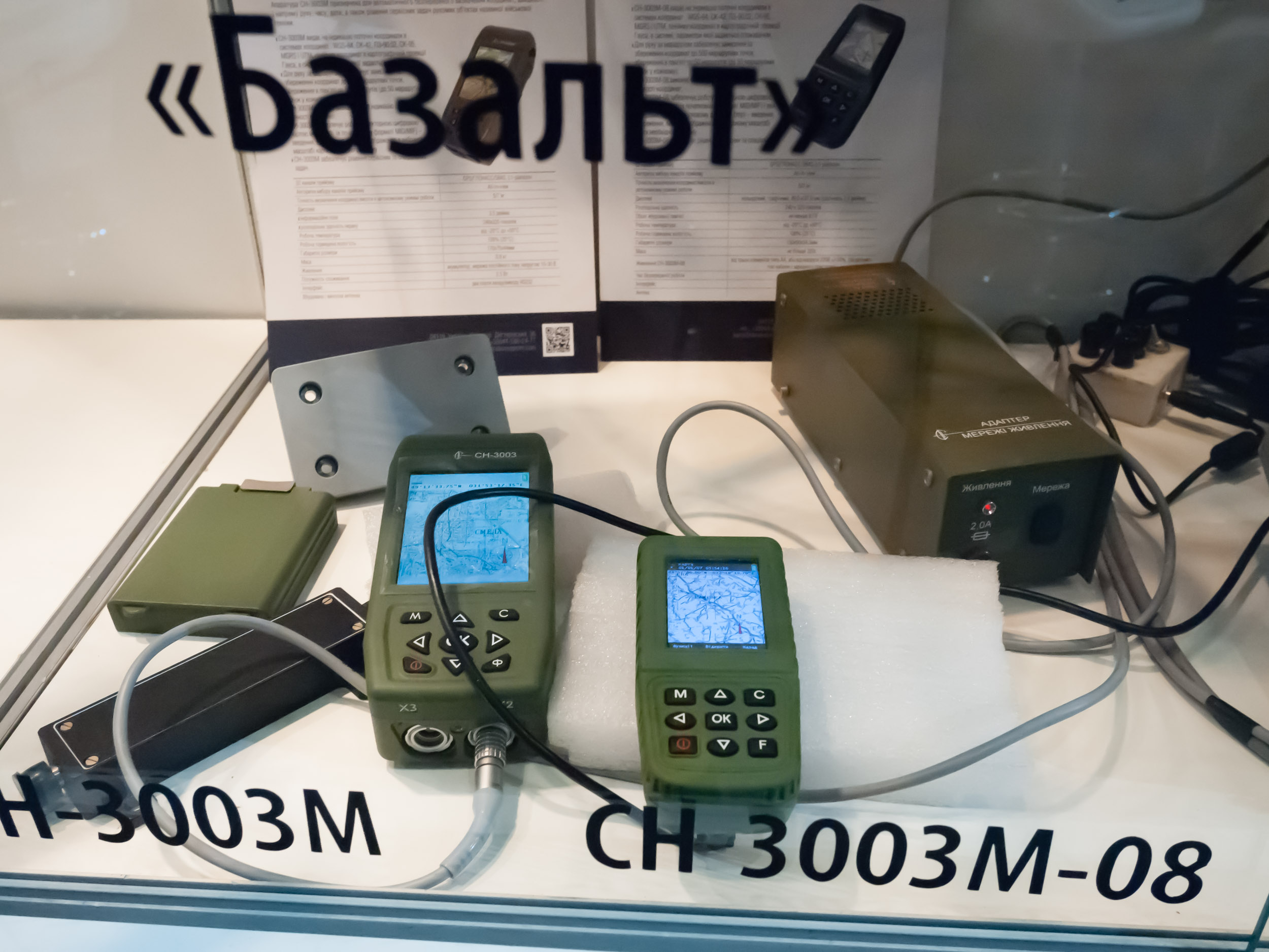 Orizon-navigation (Ukraine) Bazalt SN-3003 personal navigation devices, 'Zbroya ta Bezpeka' military fair, Kyiv, Ukraine, 2018